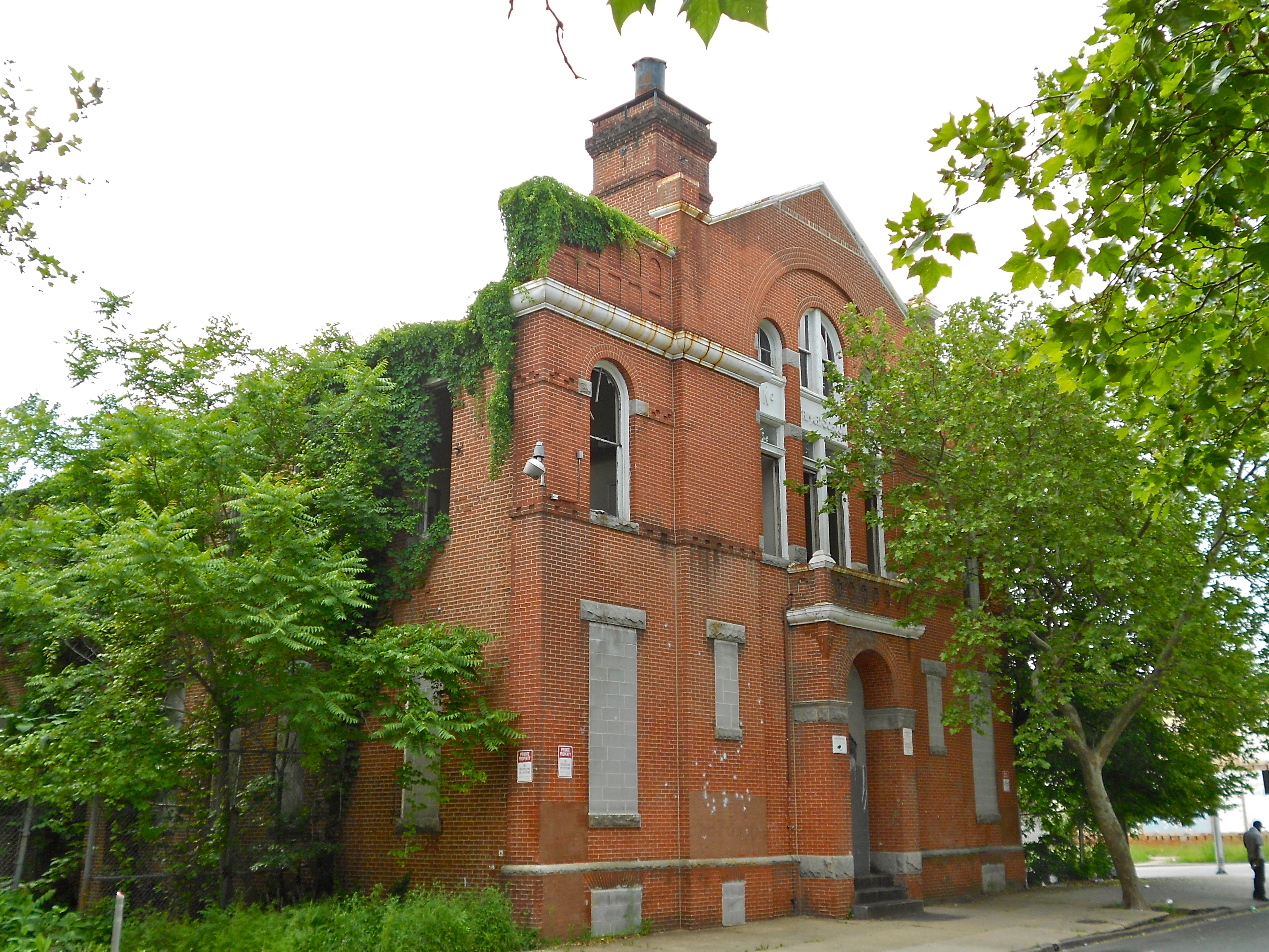 Public School No. 111 on the NRHP since September 25, 1979, located at N. Carrollton Ave. and Riggs Rd., Baltimore, Maryland. Looking in pretty rough shape.